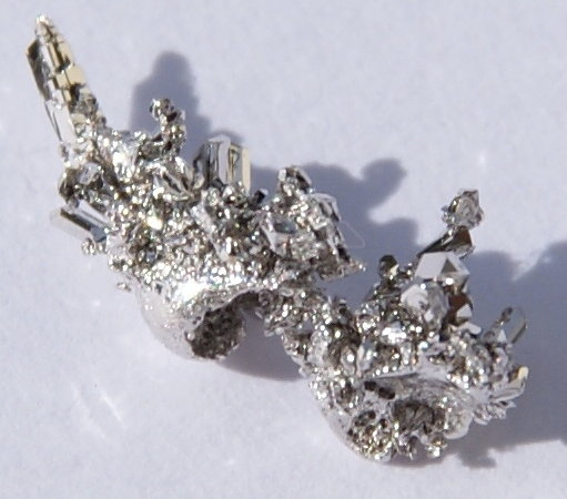 Palladium crystal, 1 * 0.5 cm.